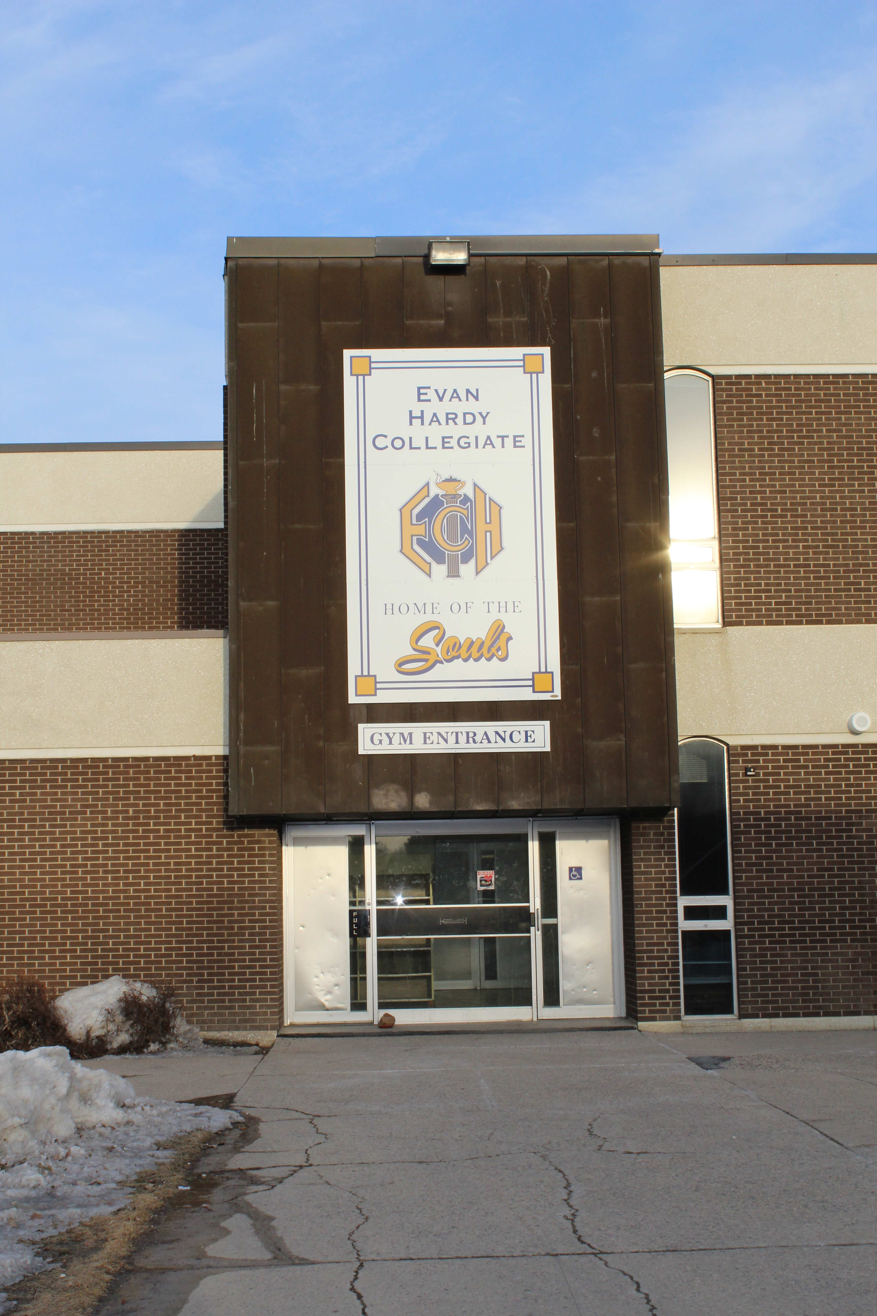 Evan Hardy Collegiate Main Entrance Sign